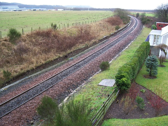 Drybridge Station. Remains of Drybridge Station on the Ayr to Kilmarnock line. One of the platforms is still reasonably intact, the other is heavily overgrown.